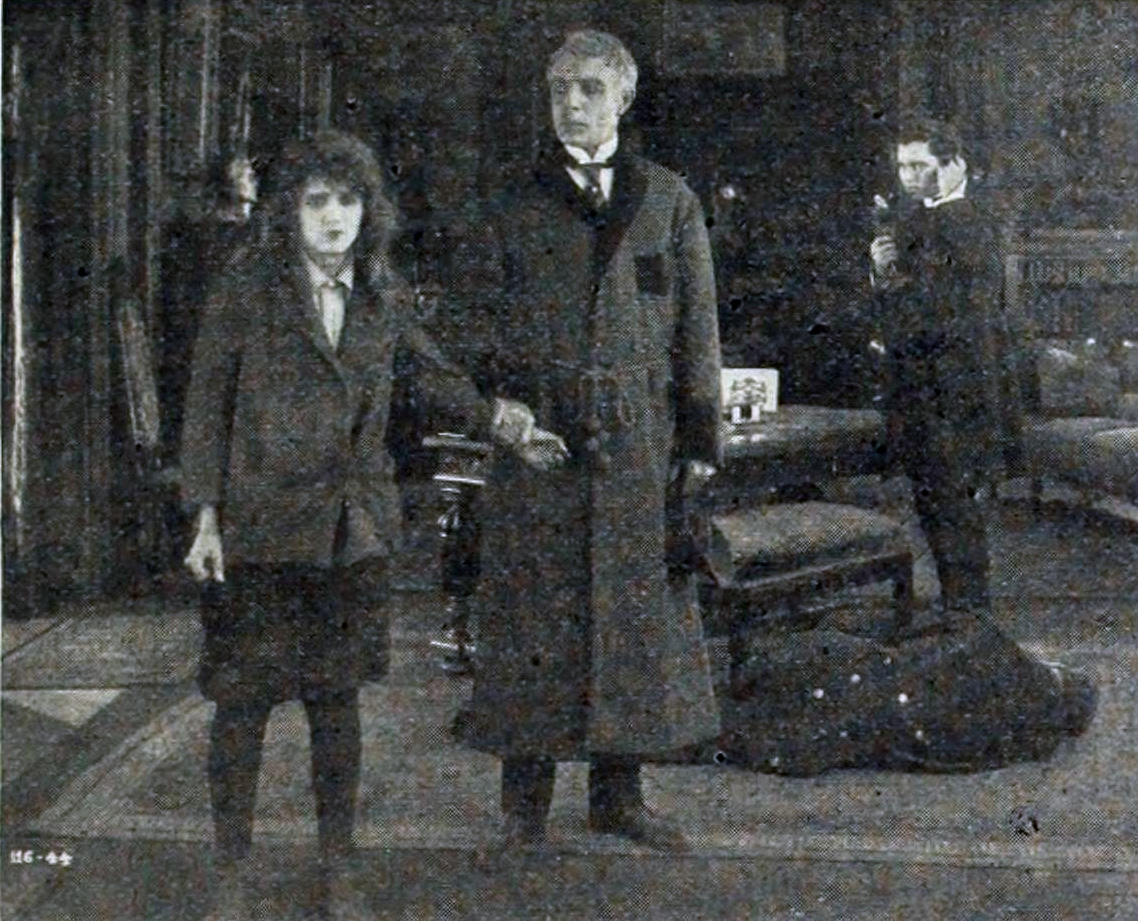 Illustration used in a review in The Moving Picture World for the American film Destiny's Toy (1916) with Louise Huff and J. W. Johnston.